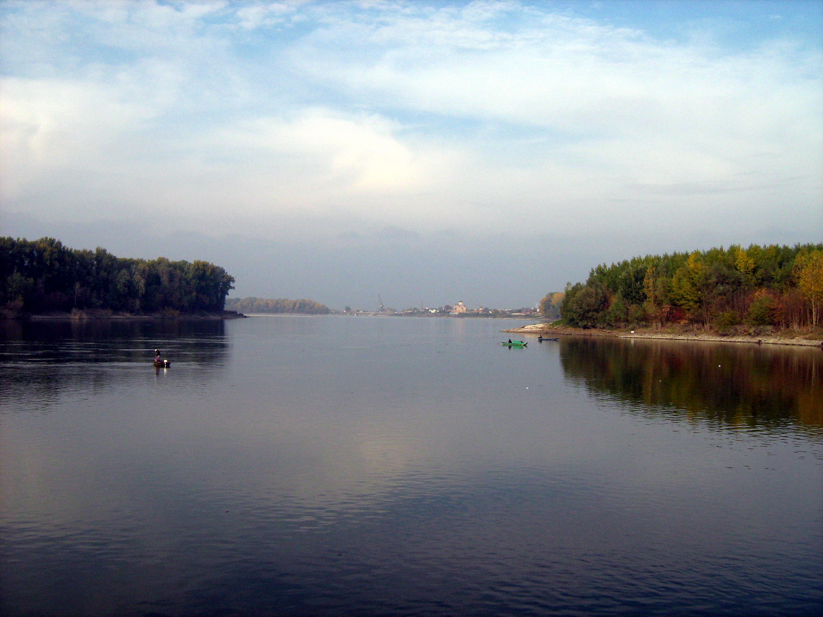 Danube river near Apatin, Vojvodina, Serbia